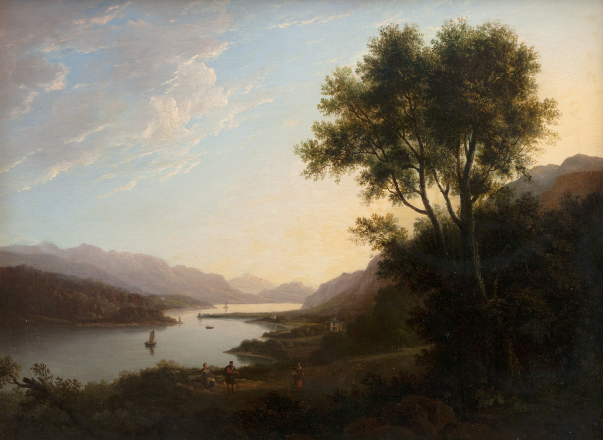 Nasmyth, Jane; Loch Ness; Highland Council